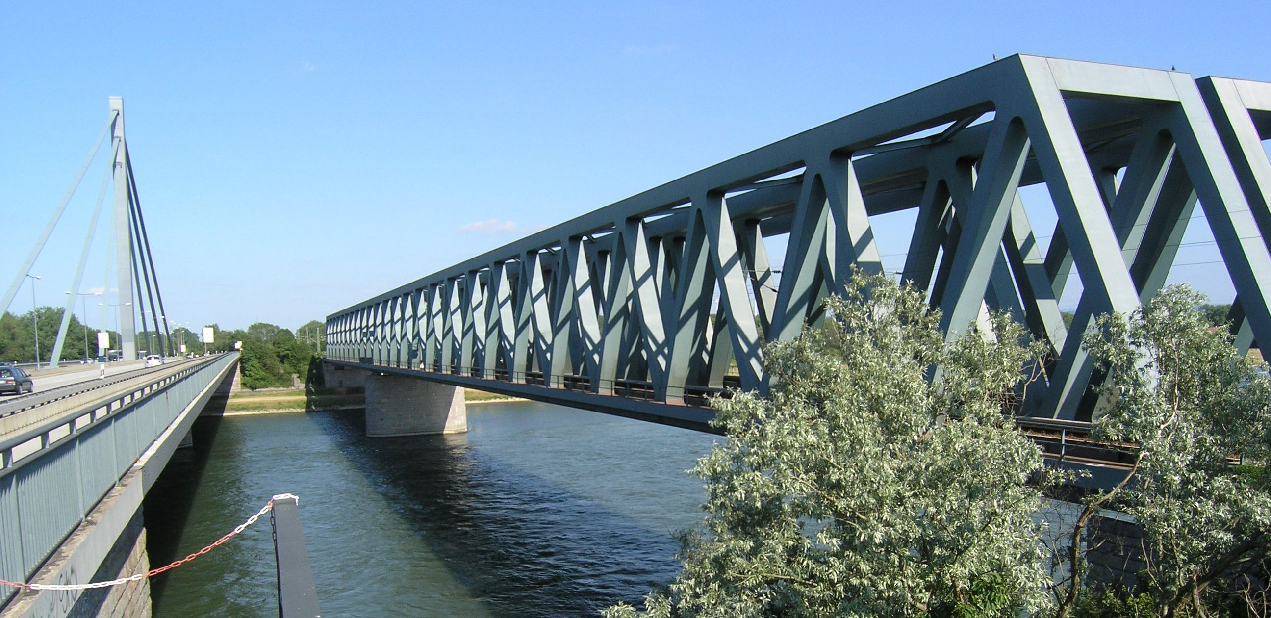 Bridges across the Rhine at Karlsruhe-Maxau